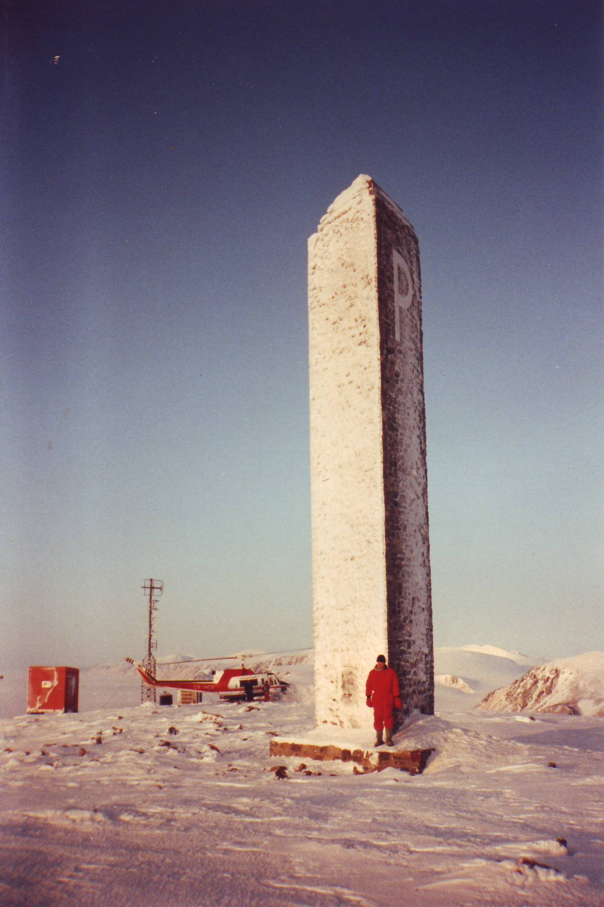 Robert Peary monument at Cape York Greenland Picture taken April 1993 while repairing VHF Telephone relay station seen in the background